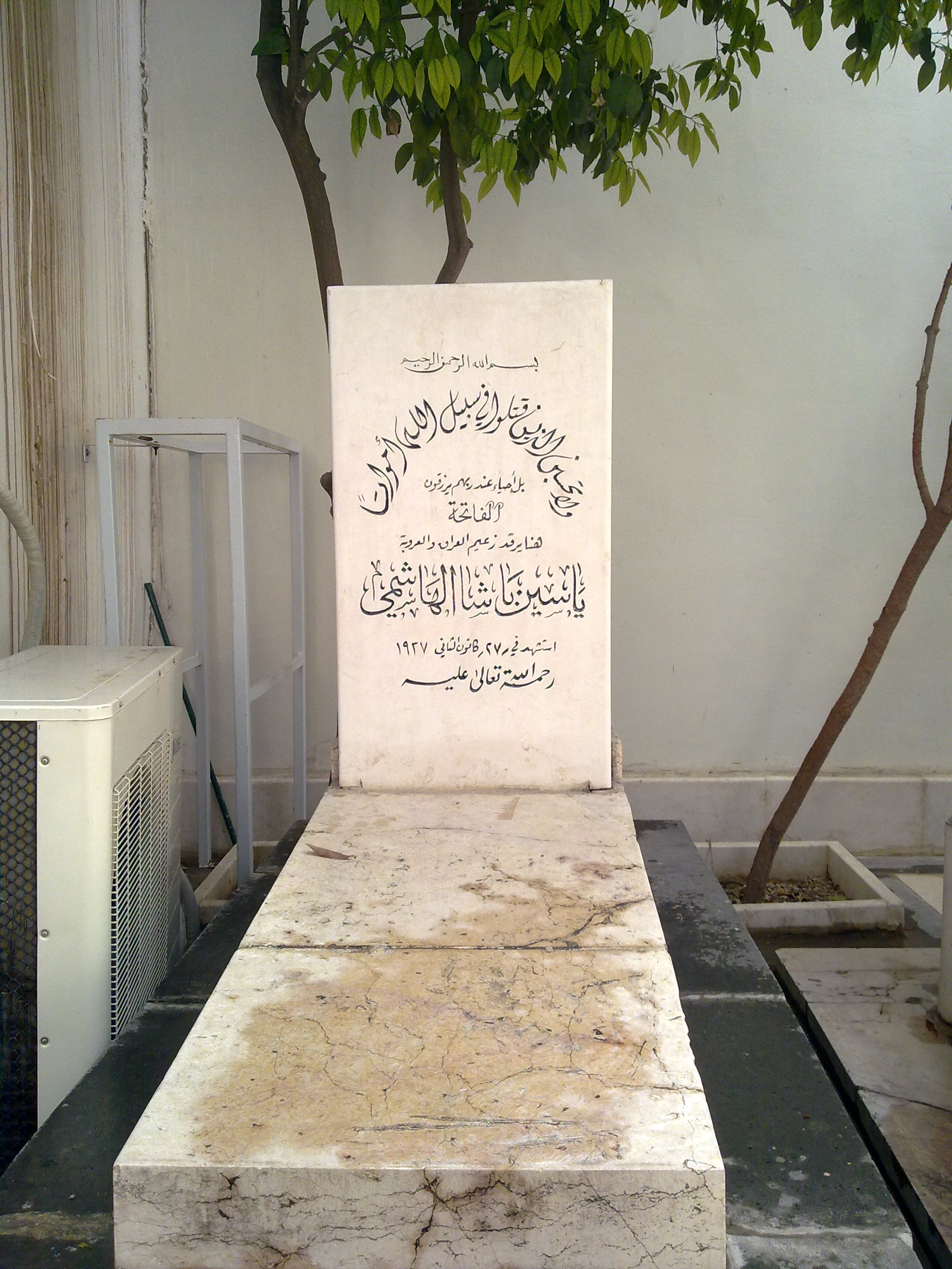 an Iraqi politician who served twice as the Prime Minister of Iraq.